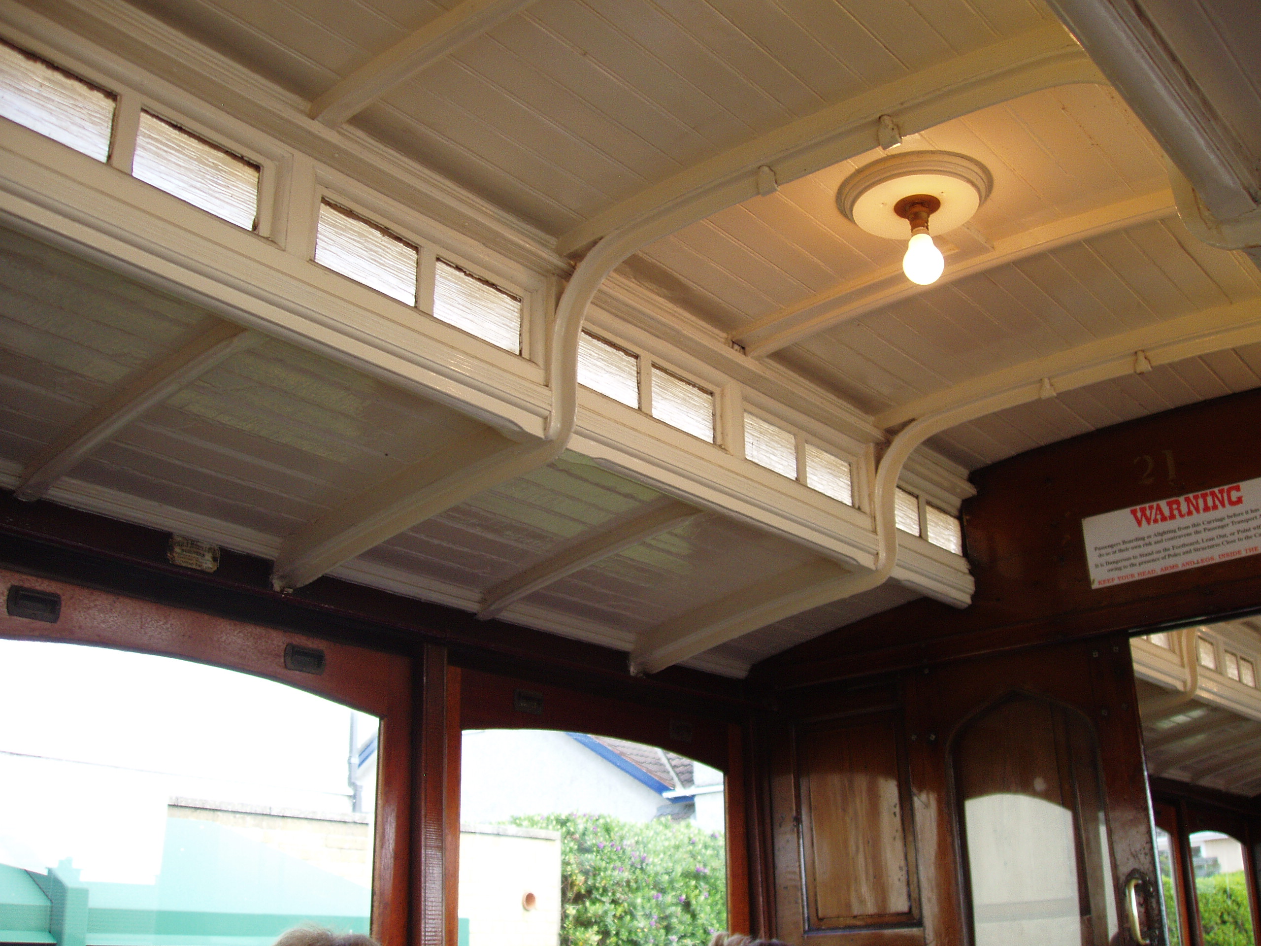 Ceiling details of winter saloon car 21 while at the Derby Castle tram station in Douglas, Isle of Man.